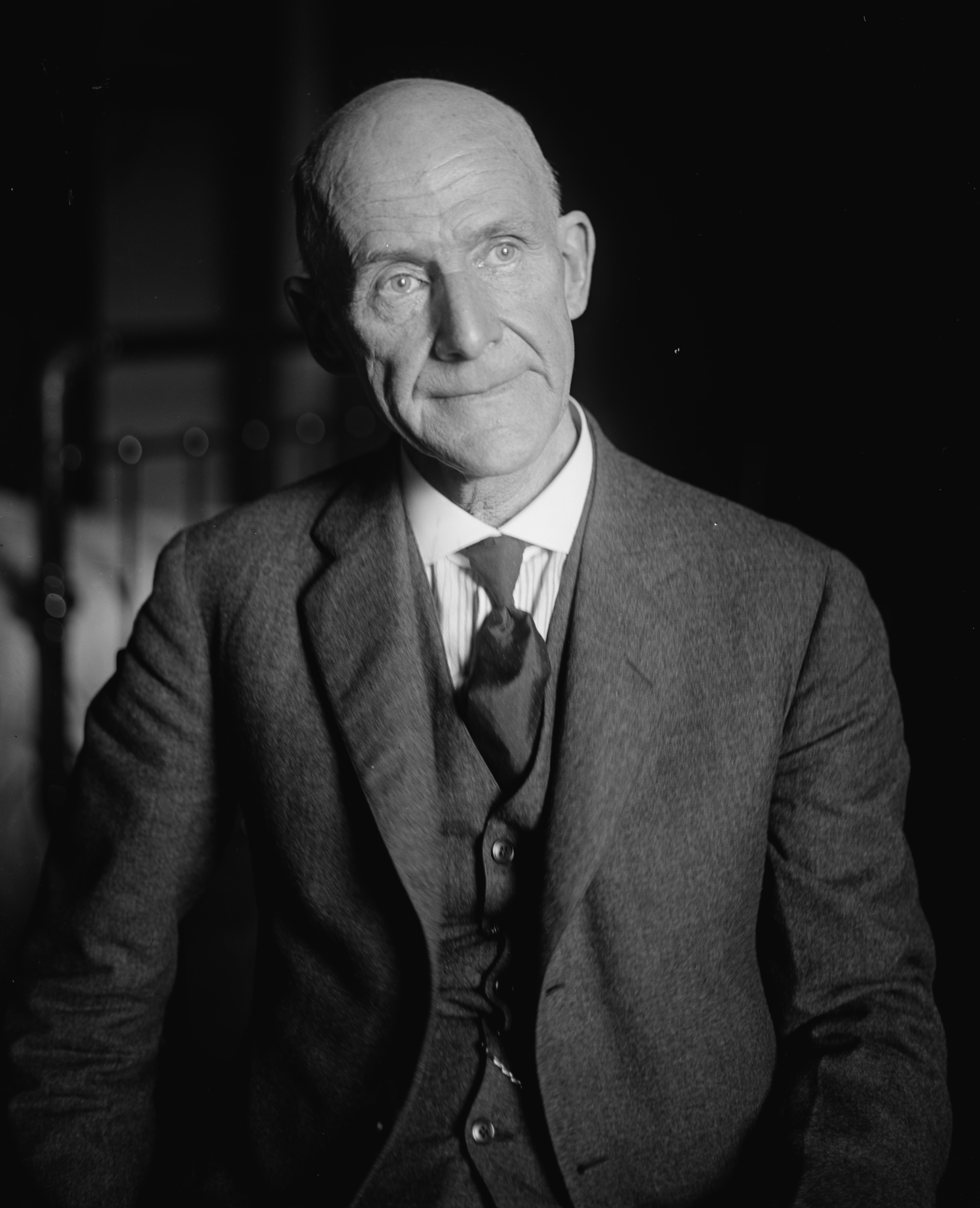 American socialist Eugene V. Debs